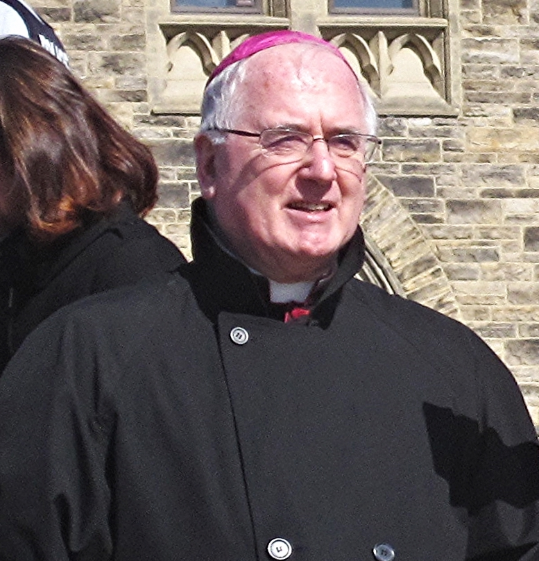 Archbishop Terrence Prendergast with Luigi Bonazzi, the Apostolic Nuncio to Canada